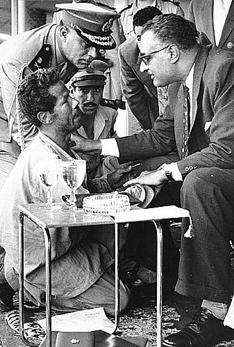 Gamal Abdel Nasser engages with a homeless Egyptian man who slept beneath the wooden stage where Nasser was seated. He broke the chair and approached Nasser to plead for a job, which Nasser gave him immediately. Nasser conducted a long conversation with the man afterward.